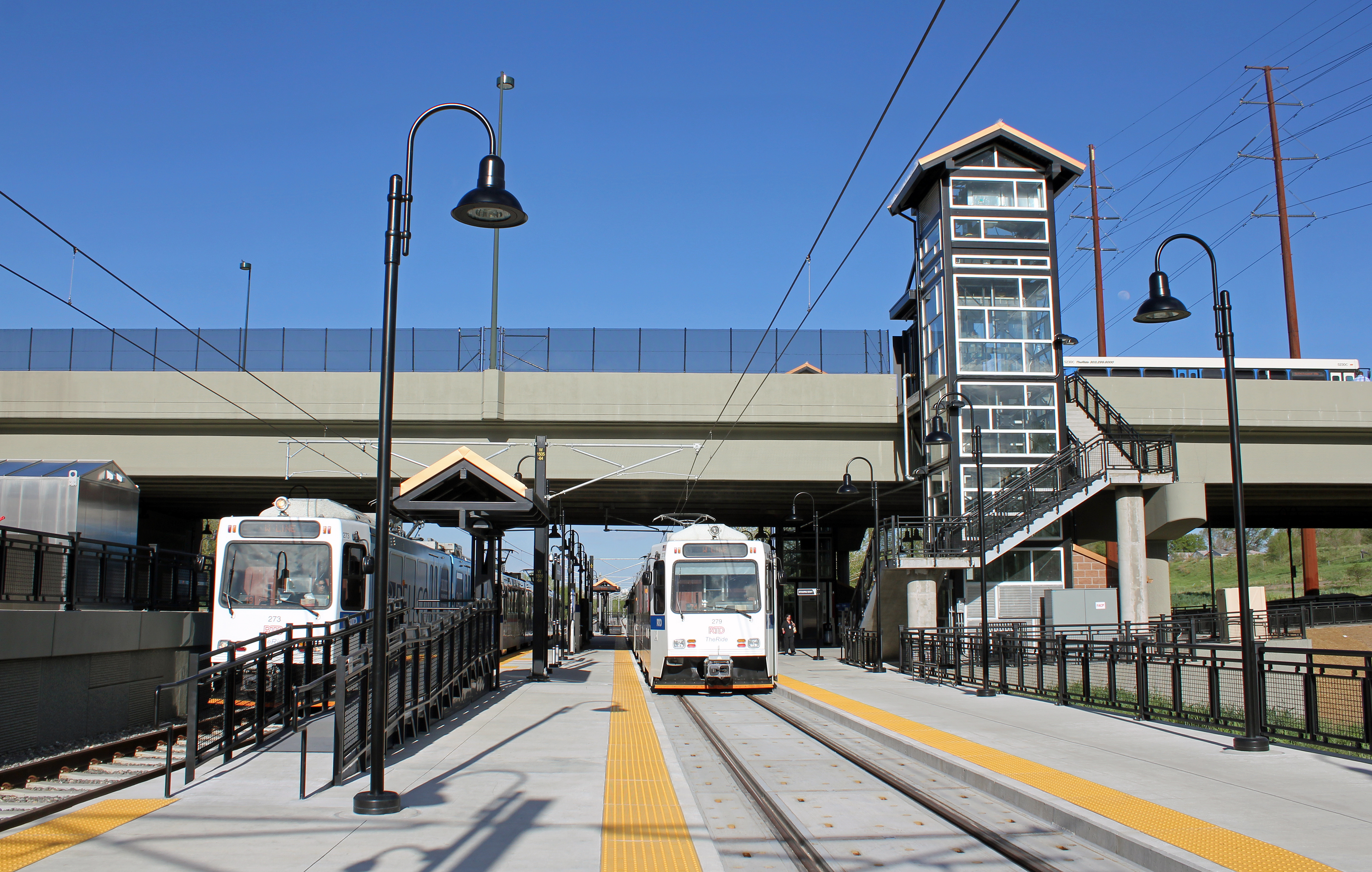 The Sheridan RTD light rail station. The station's address is 1198 Sheridan Boulevard, Denver, Colorado. Sheridan Boulevard is the border between Denver and Lakewood, and the station occupies space on both sides of the border.